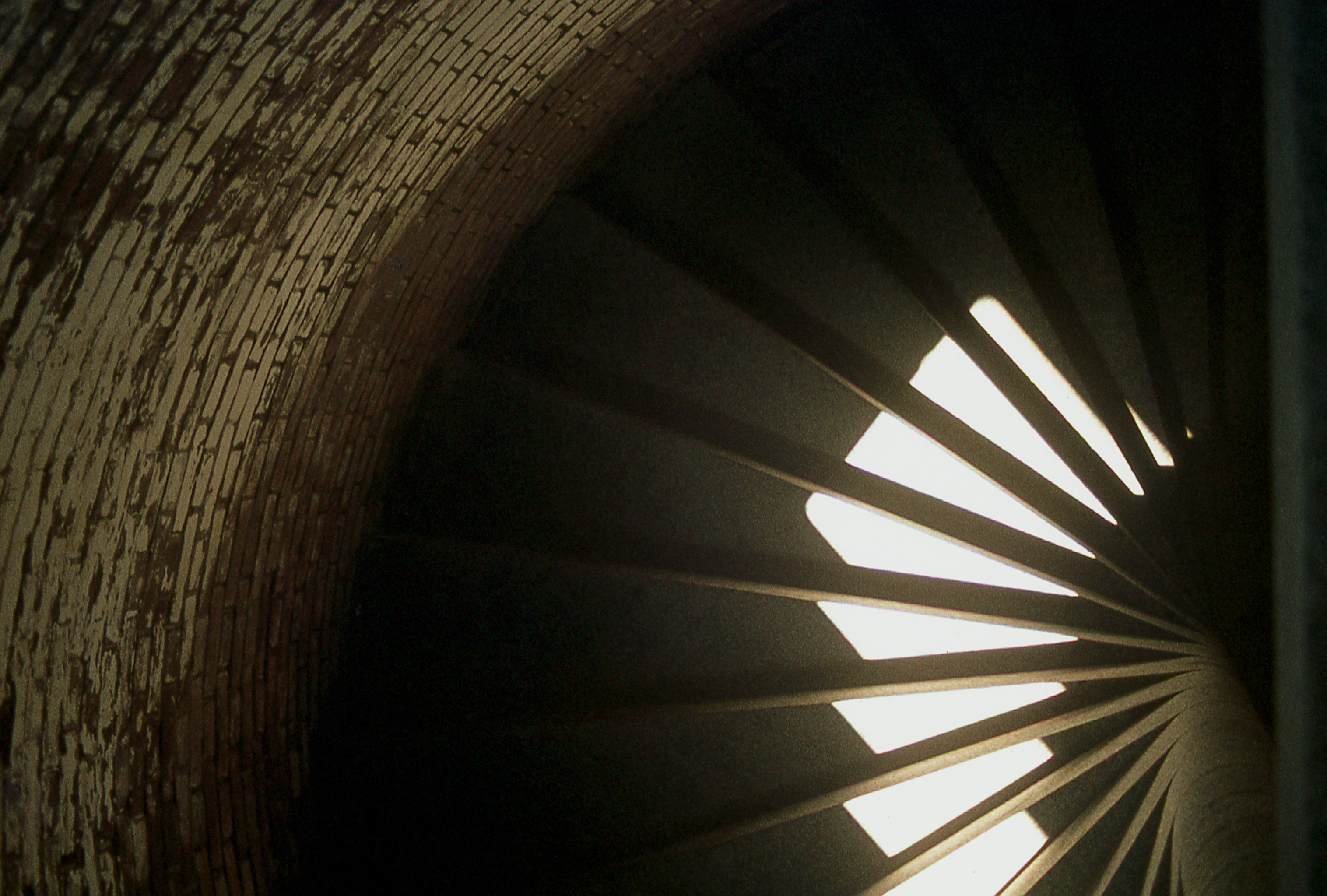 Circular stairway at Fort Point. Photographed around 1975. Scanned from slide in 2009.